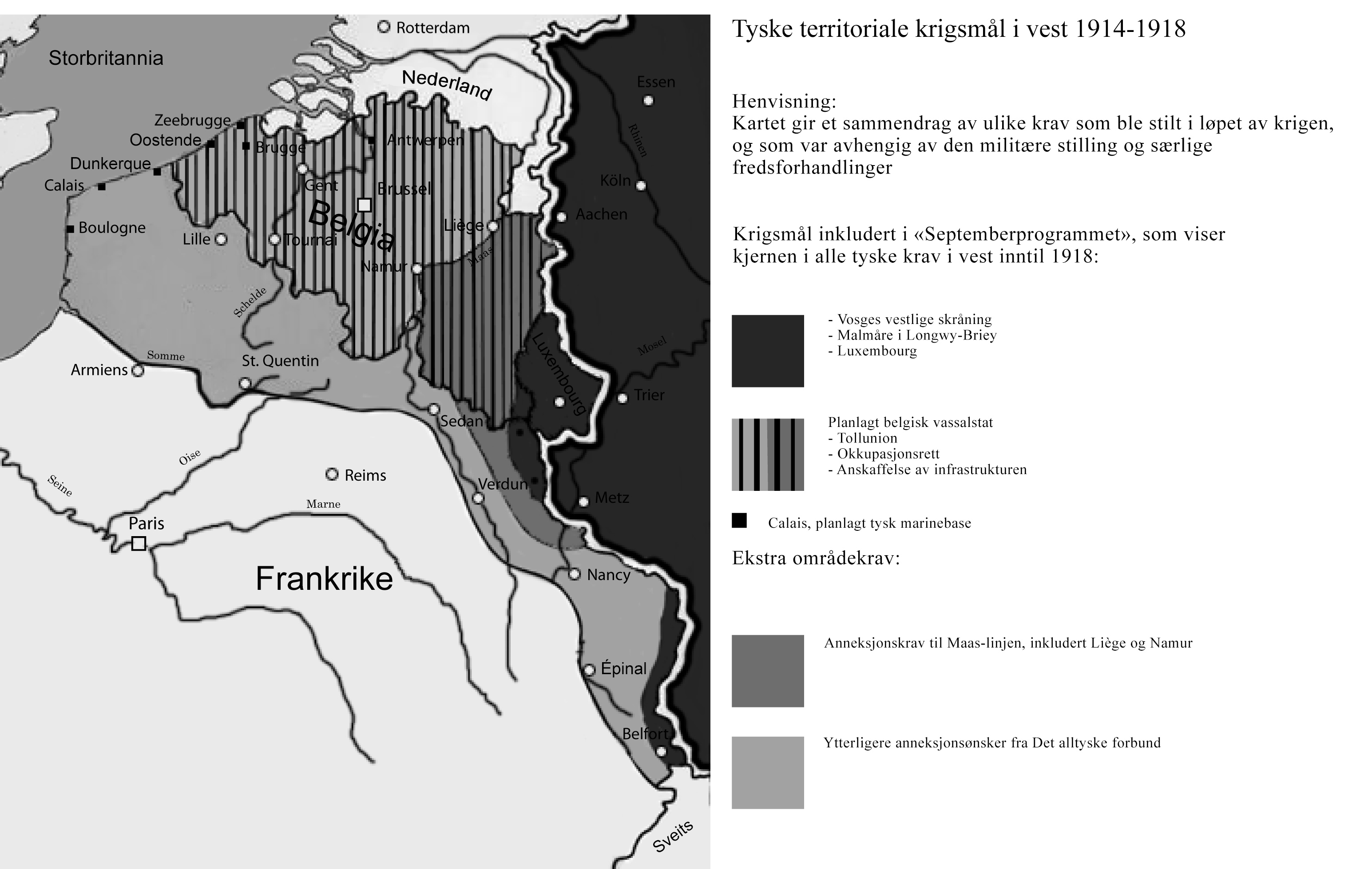 The waraims of the German Empire 1914-1918